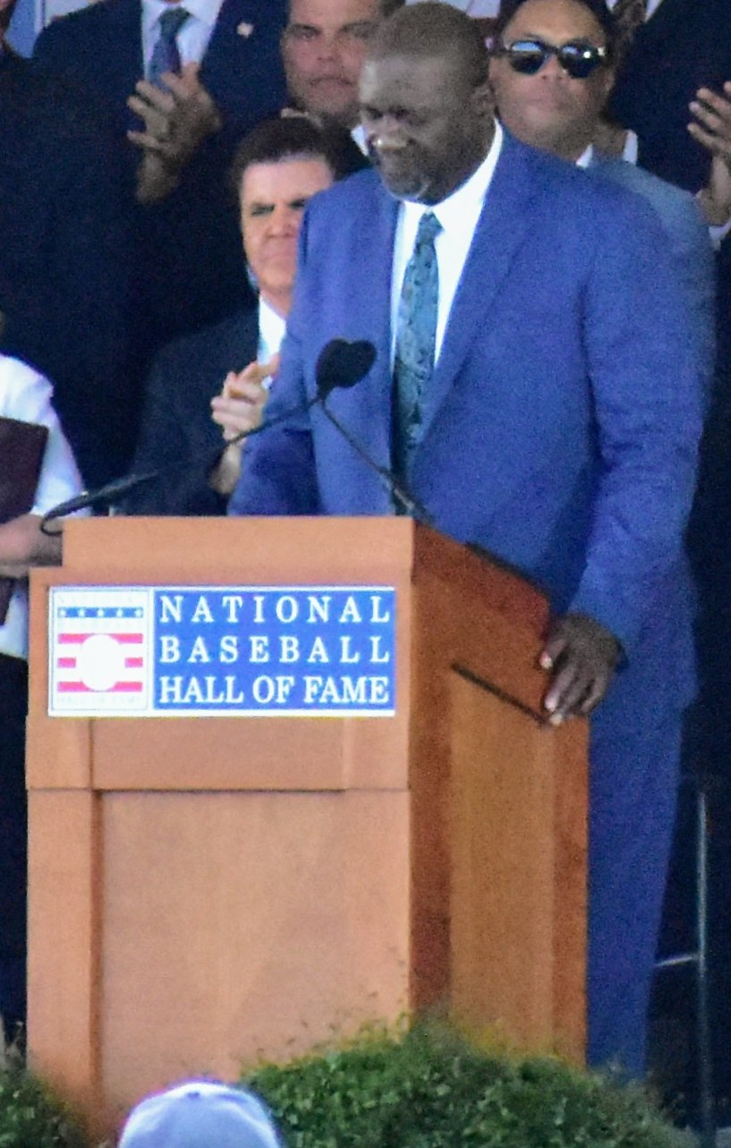 Former MLB player Lee Smith gives a speech during his induction ceremony to the National Baseball Hall of Fame on July 21, 2019